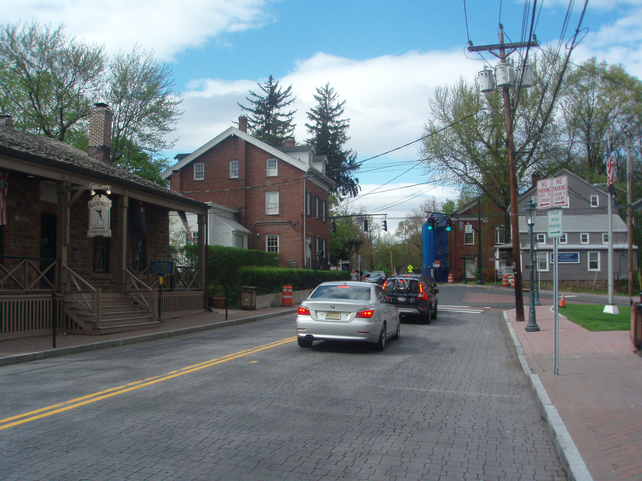 Downtown Tappan, NY